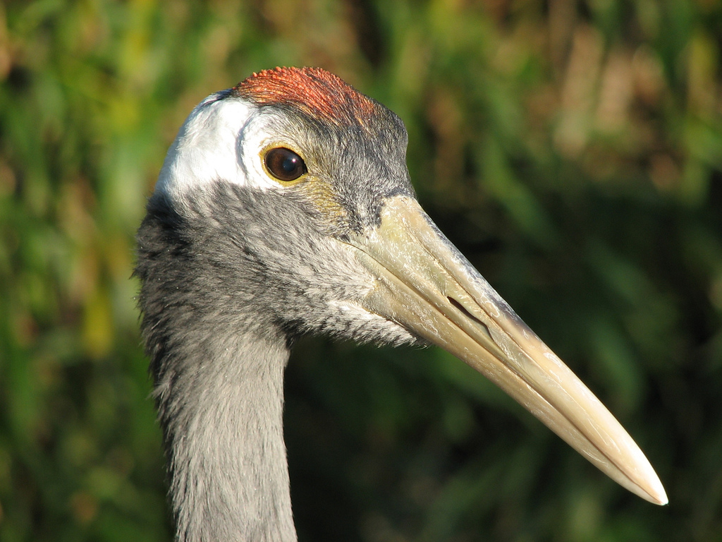 Japanese Red Crowned Crane (Grus japonensis) at Louisville Zoo